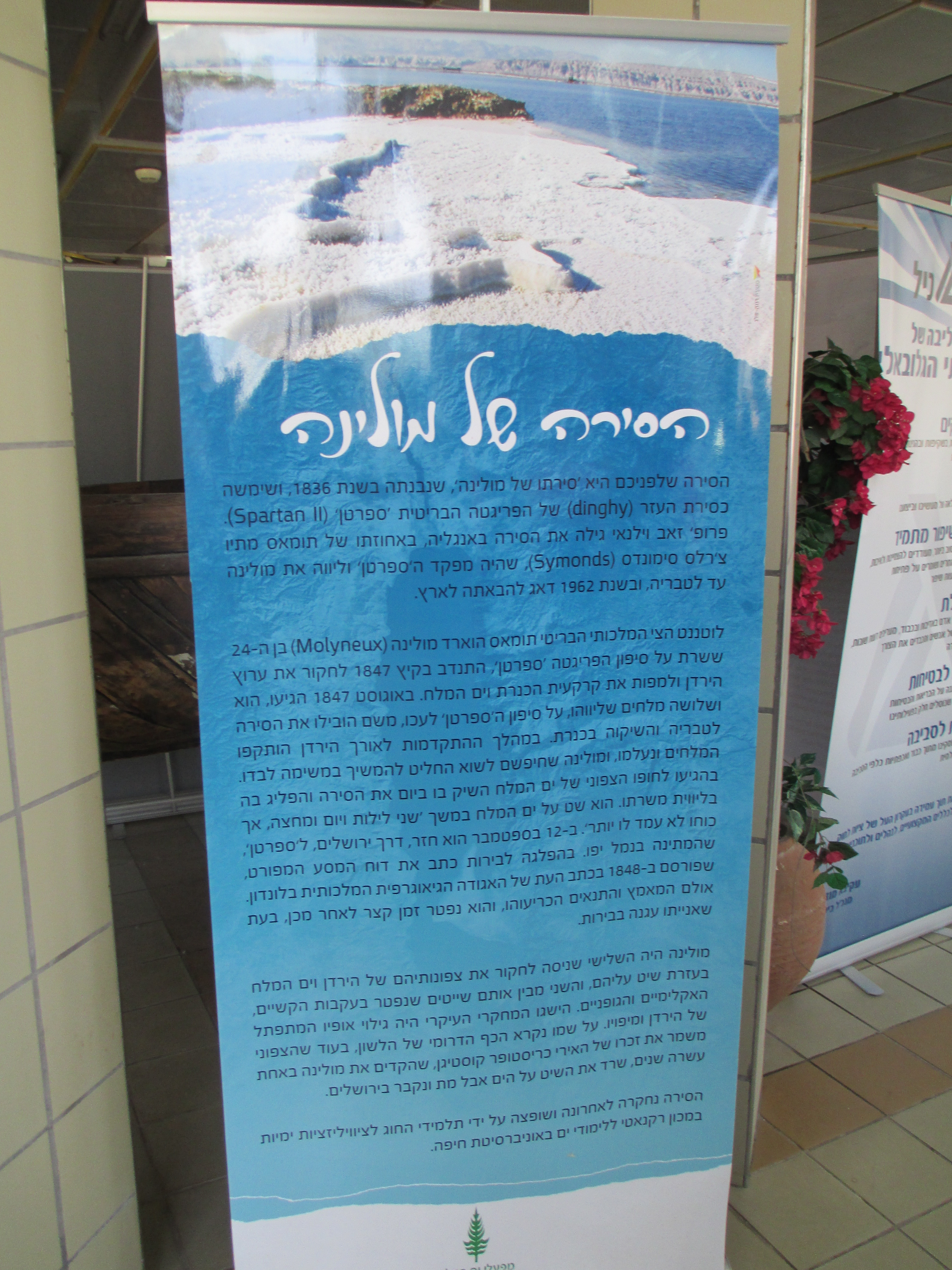 The Molyneux boat